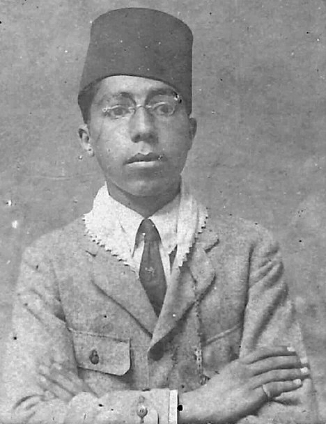 Mustafa Osman in the 1920s. Picture taken in Tunis.